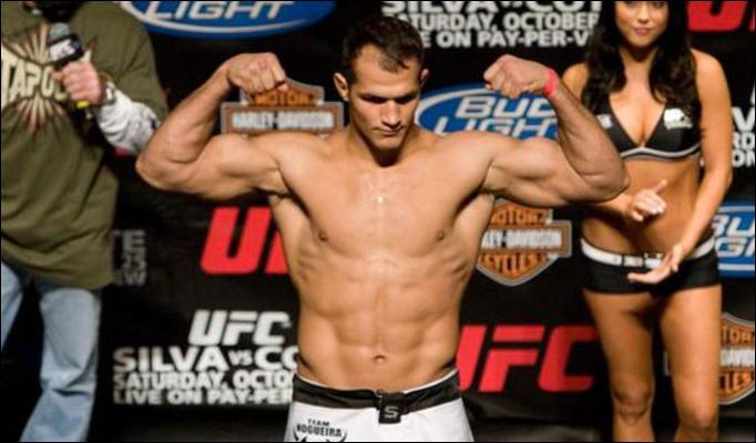 UFC on Fox Weigh in